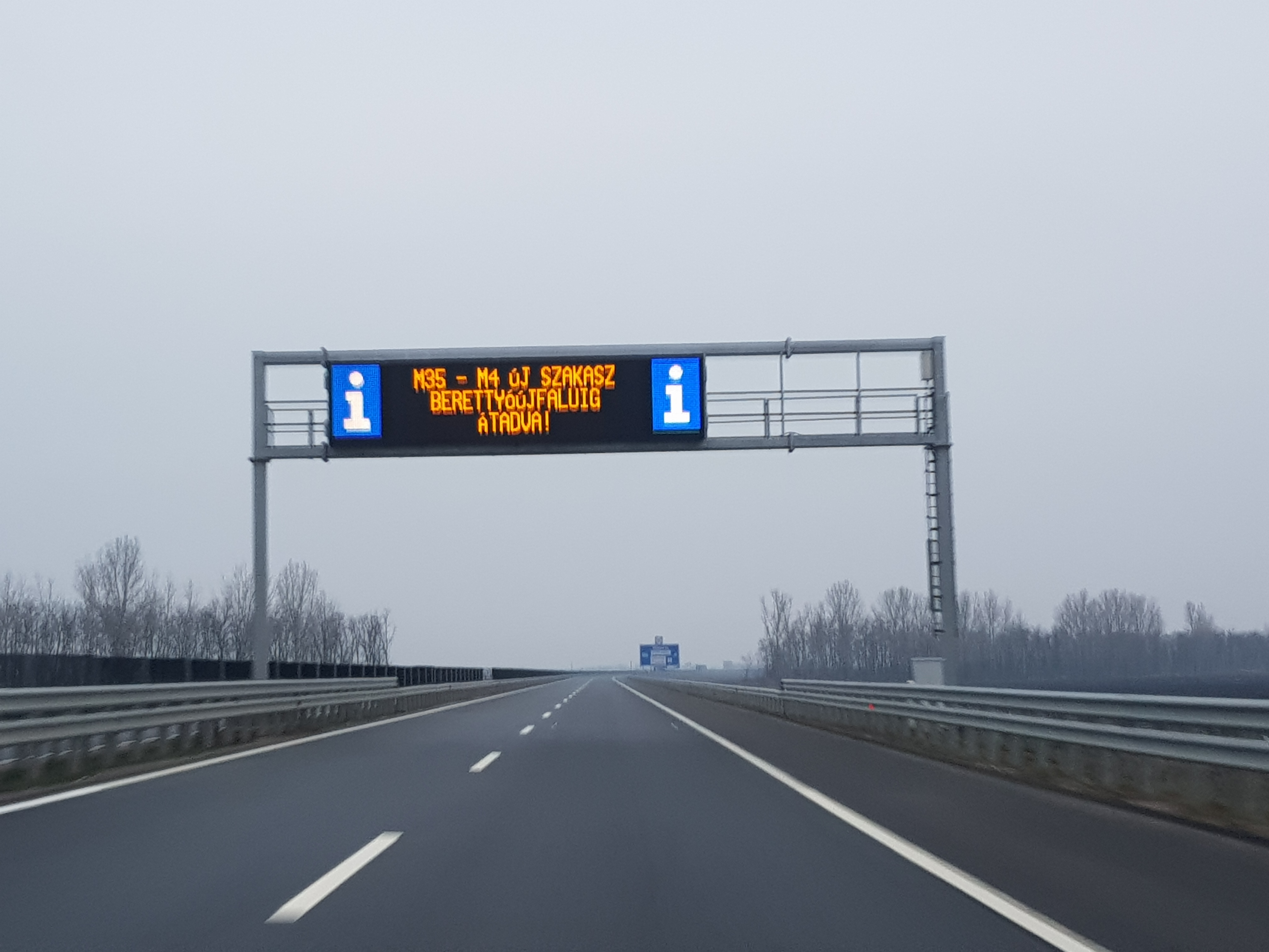 Motorway M35 in Hungary, near Exit 49